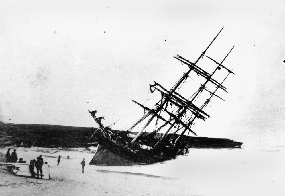 Hereward (ship) The 'Hereward' wrecked on Maroubra Beach. (Description supplied with photograph).